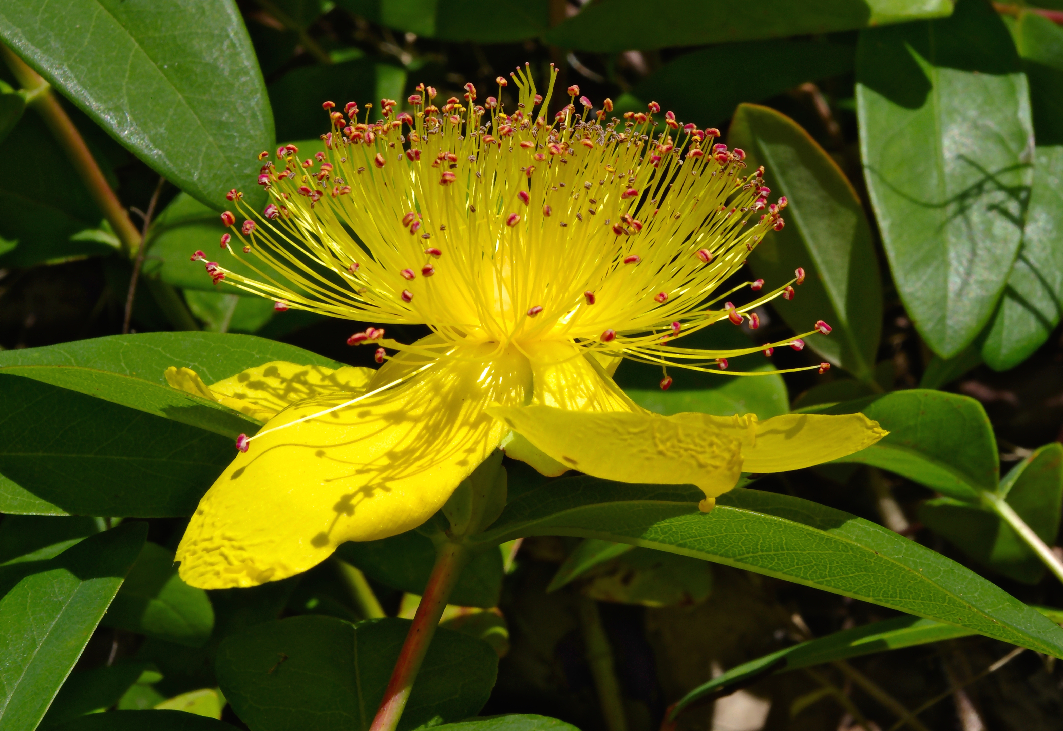 Rose of Sharon (Hypericum Calycinum), flower, garden, France.